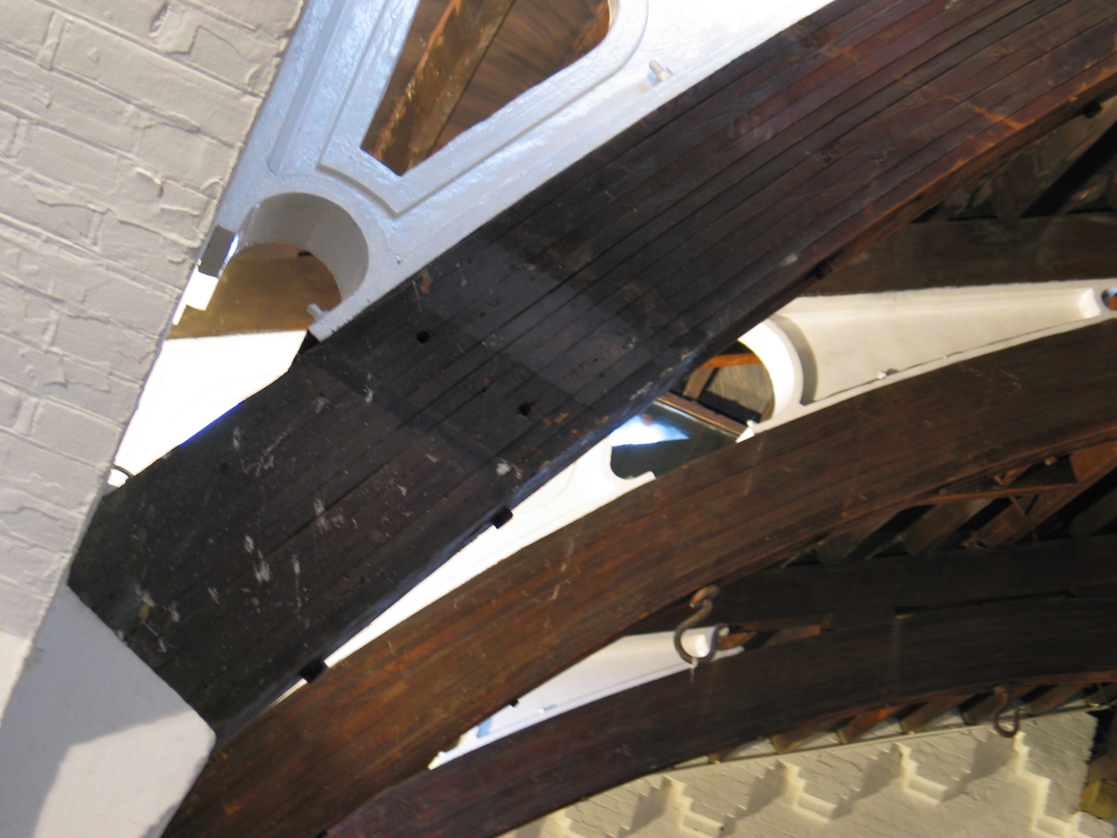 Detail of the revolutionary trussed roof structure of the German Gymnasium at St Pancras London showing cast iron fillets fitted to the laminated timber supports